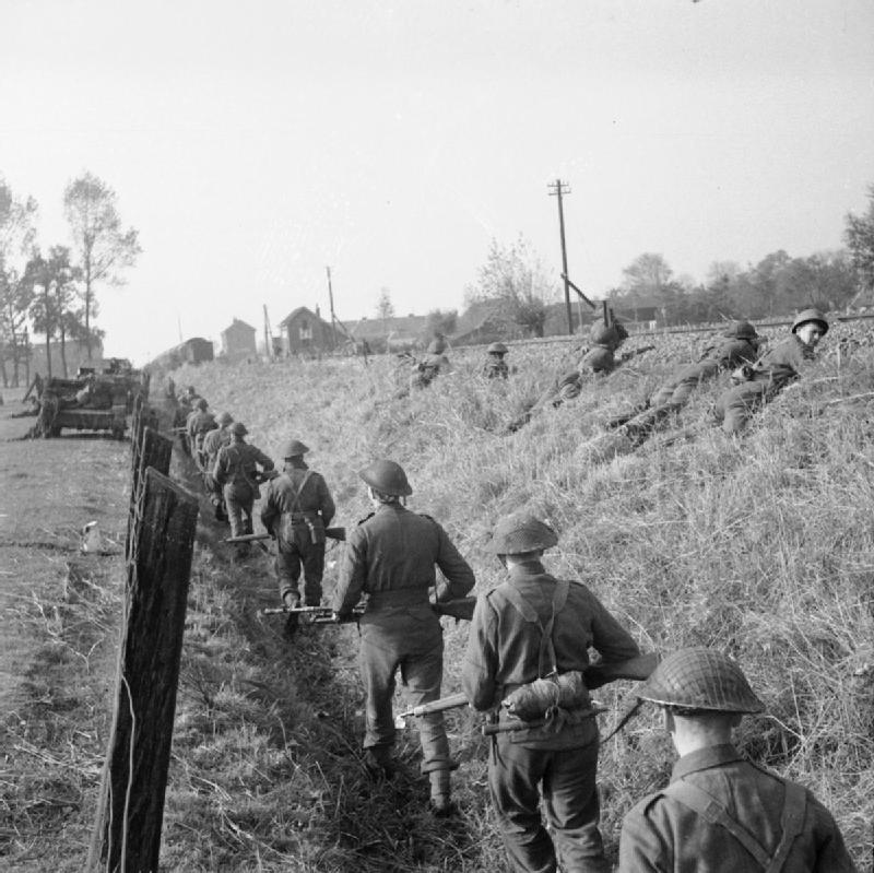 The British Army in North-west Europe 1944-45 Infantry of 4th Welch Regiment, 53rd Division, advance along a railway embankment during the capture of Hertogenbosch 25 October 1944.